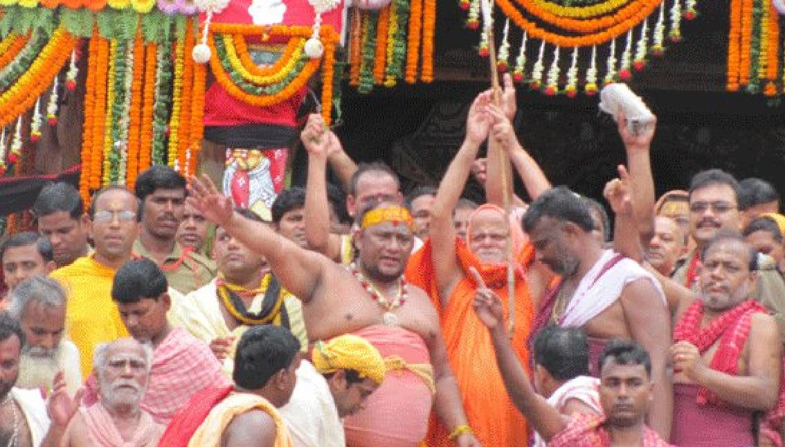 Shri Shankaracharya of Puri